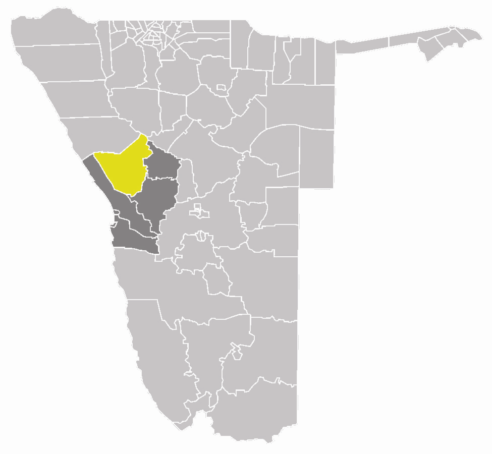 map of the Daures constituency within the Erongo region, Namibia